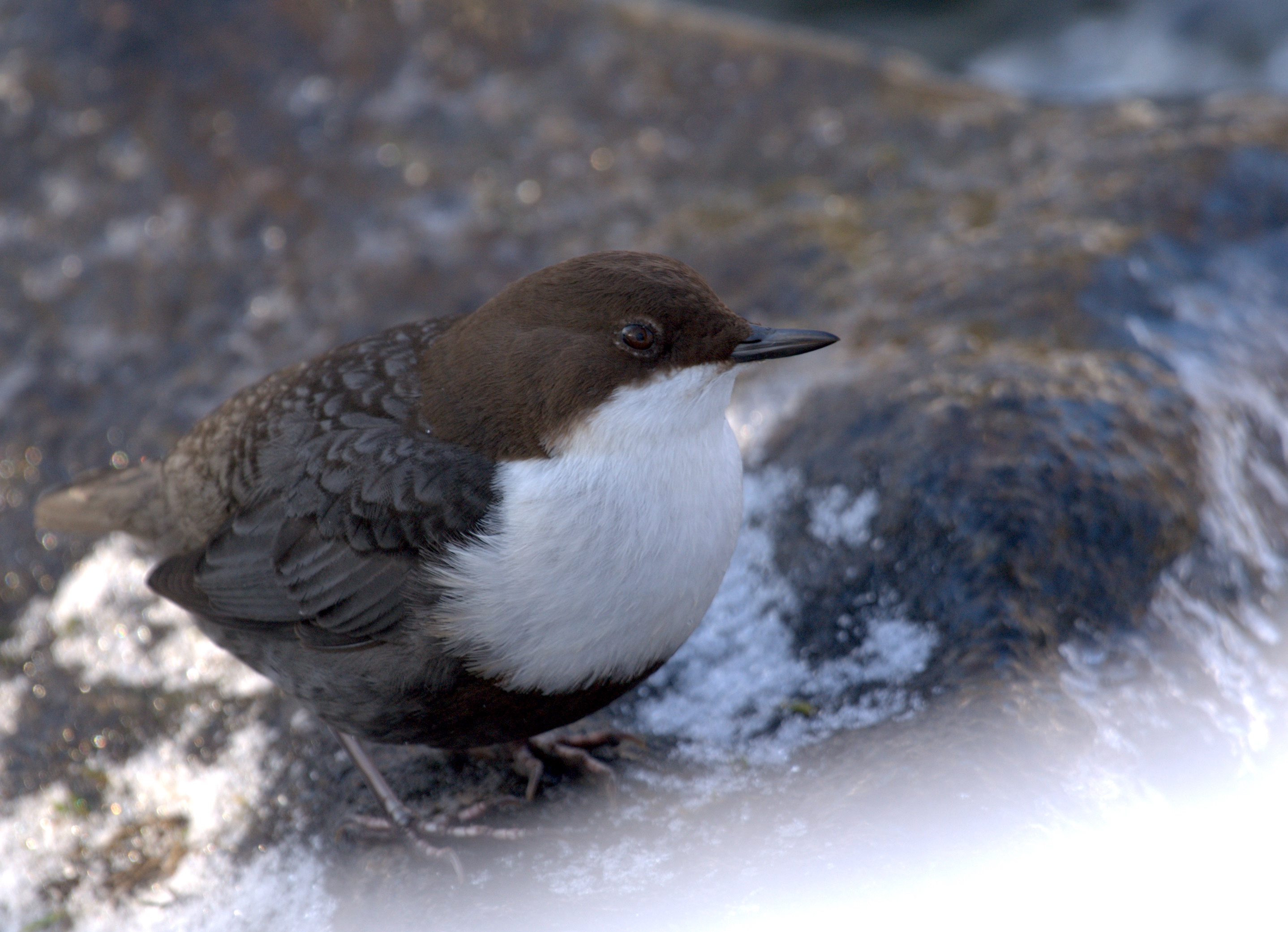 A Eurasian Dipper in Hämeenlinna, Finland